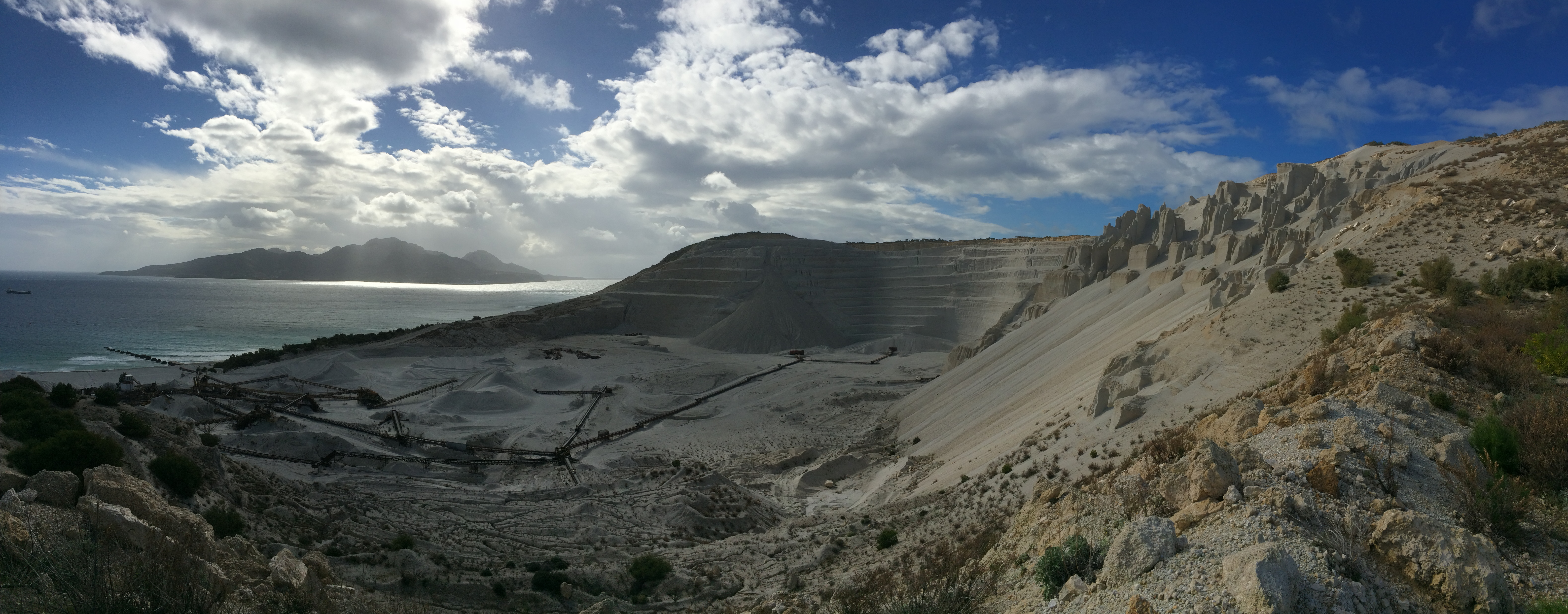 Yiali island, pumice mining, Greece.